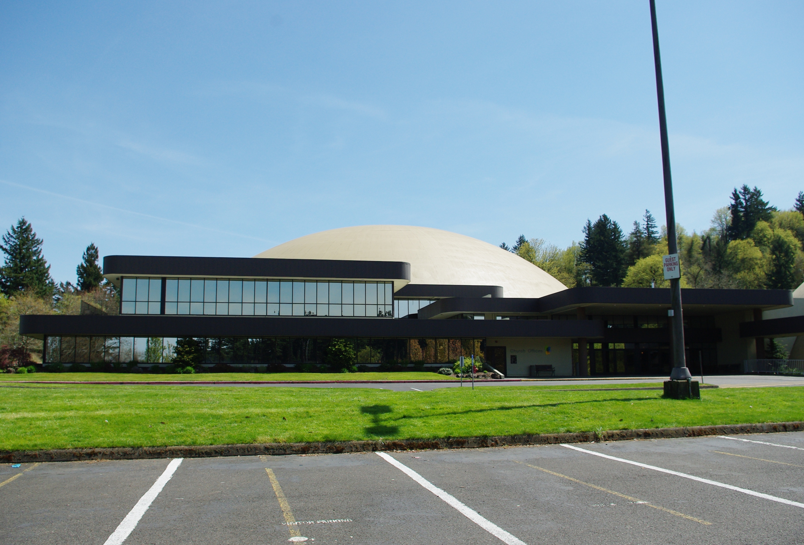 Offices for the City Bible Church in Northeast Portland, Oregon.